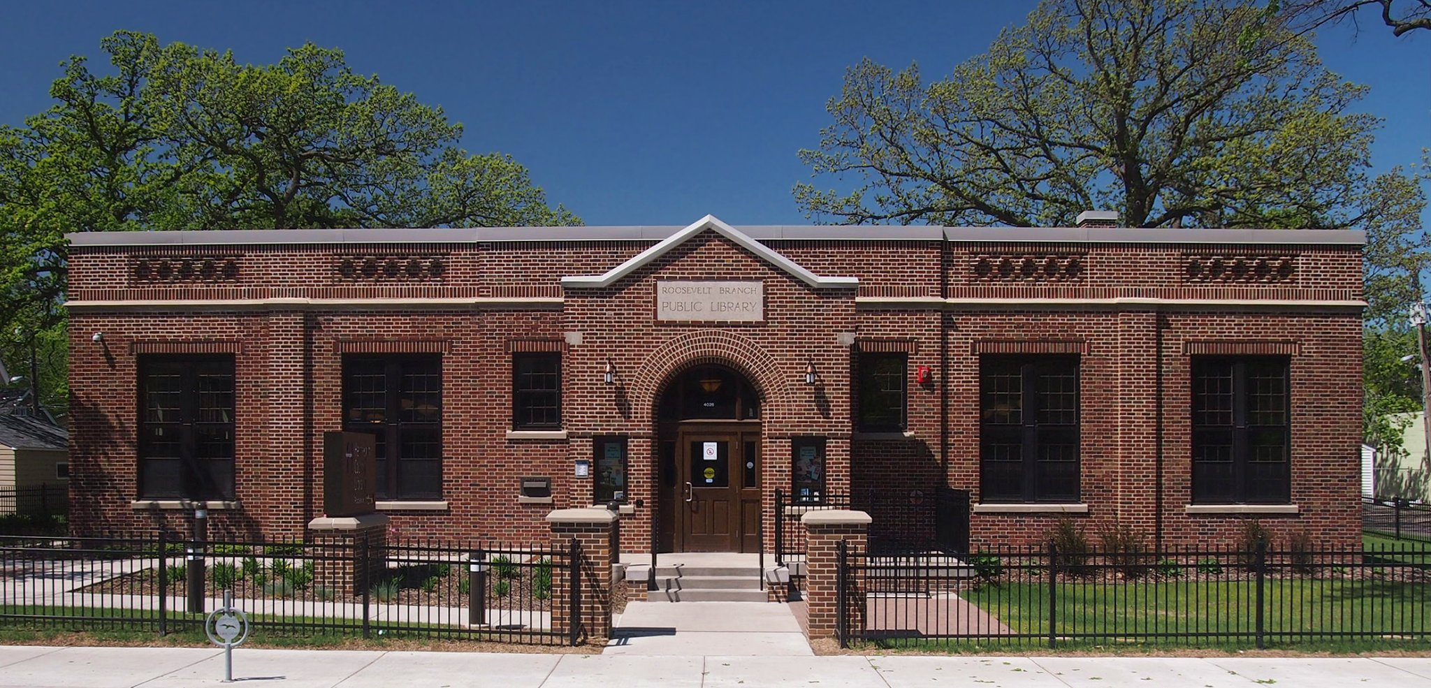 Roosevelt Community Library, 4026 28th Ave S, Minneapolis, Minnesota, USA. Viewed from the east.